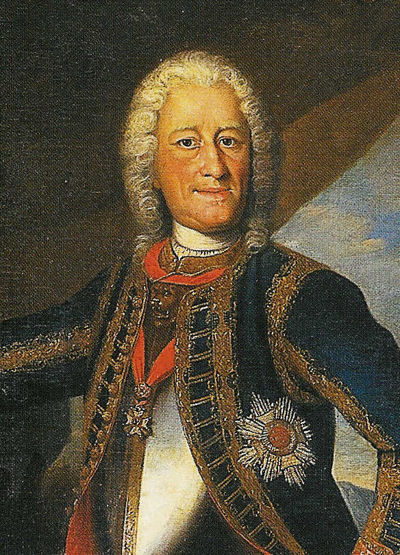 Ernest Louis, Landgrave of Hesse-Darmstadt